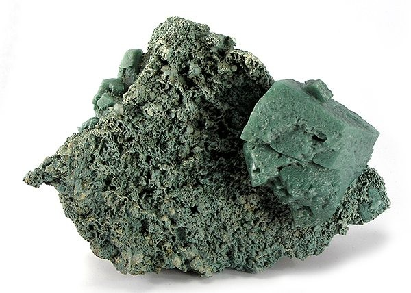 Calcite, Chlorite Locality: Aurangabad District, Maharashtra, India (Locality at ) Size: 14.8 x 9.9 x 6.9 cm. The crystal form is recognizable, but certainly not the color! This calcite crystal was richly included with green chlorite, forming this striking specimen! The crystal measures 6 cm tip to tip.